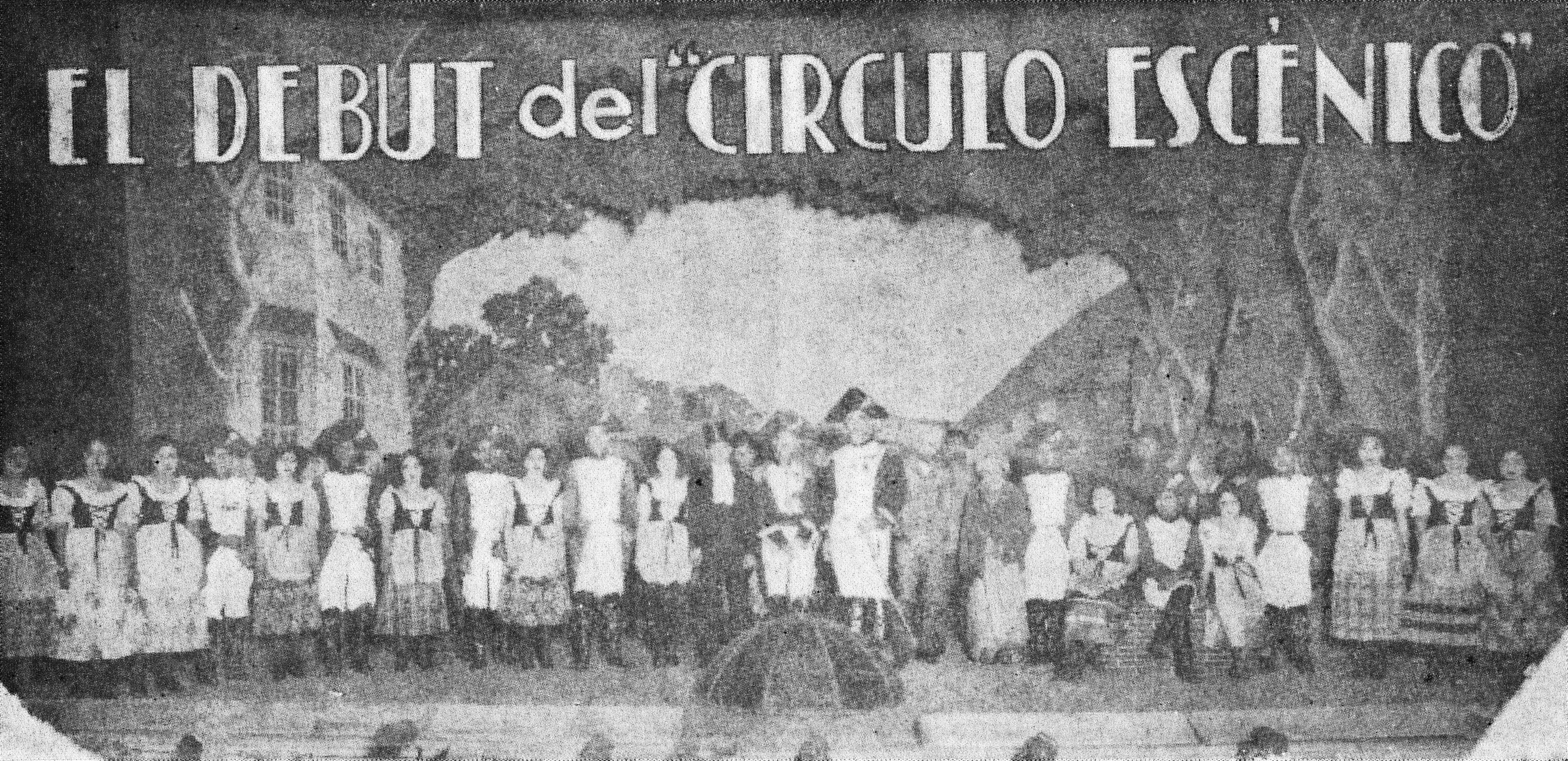 Circulo Escenico's debut performance at the Manila Grand Opera house with the Spanish Play "La Indiana".